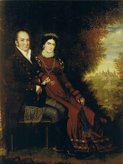 King Maximilian I and his second wife Queen Caroline of Bavaria